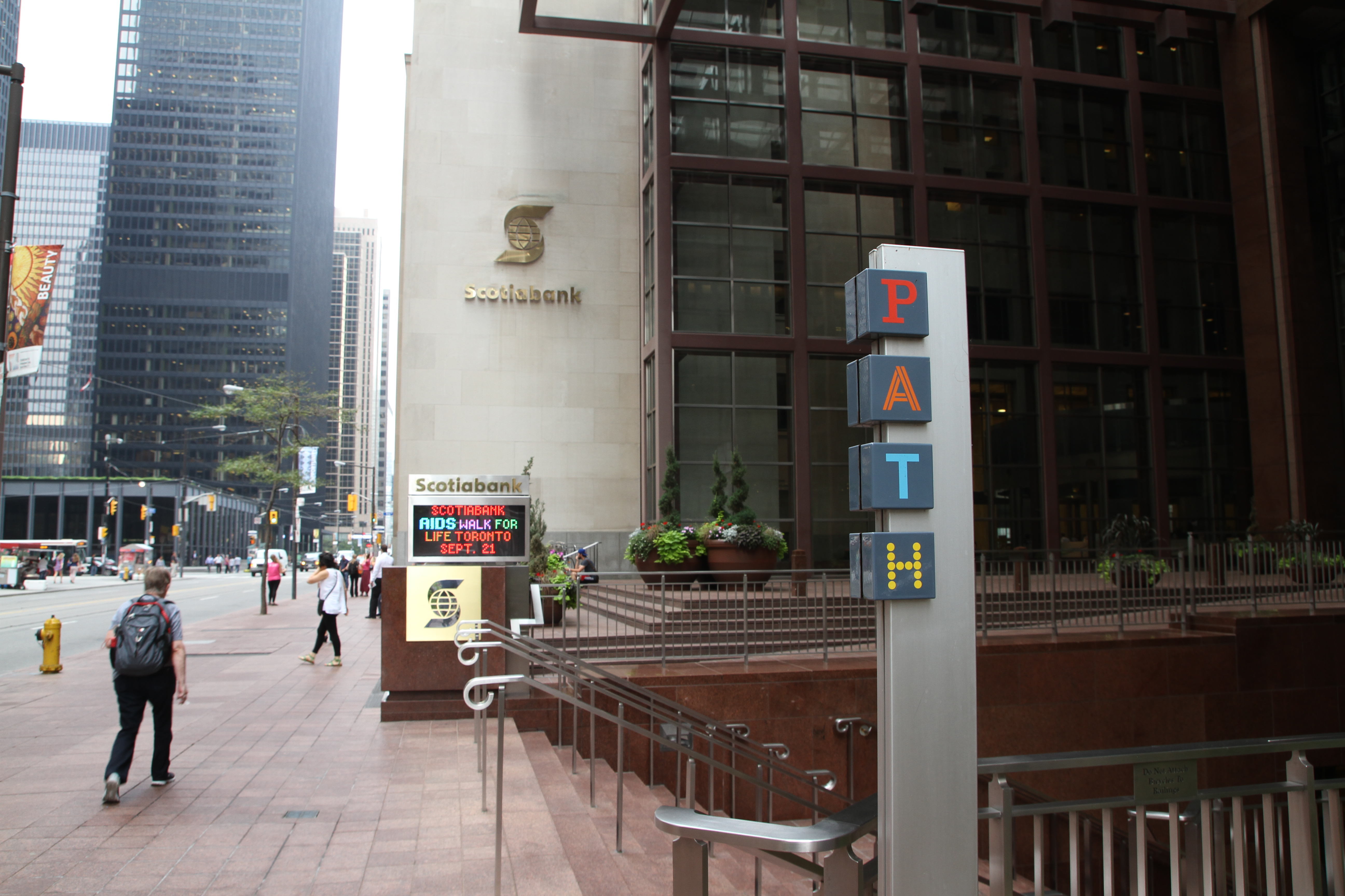 Photos by Corporate Video Production Toronto by Joseph Morris.